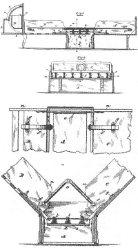 Second page of patent for Sarah E. Goode's cabinet bed